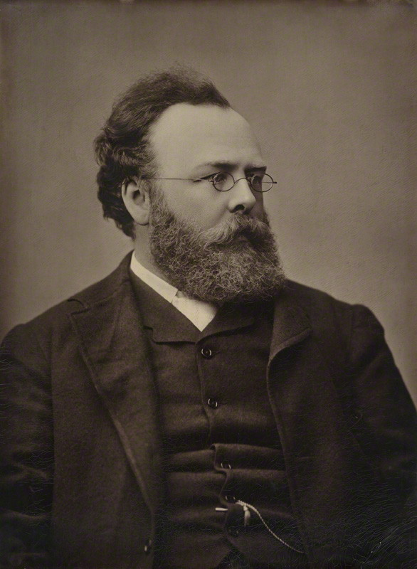 Portrait of Robert Williams Buchanan, carbon print, circa 1893